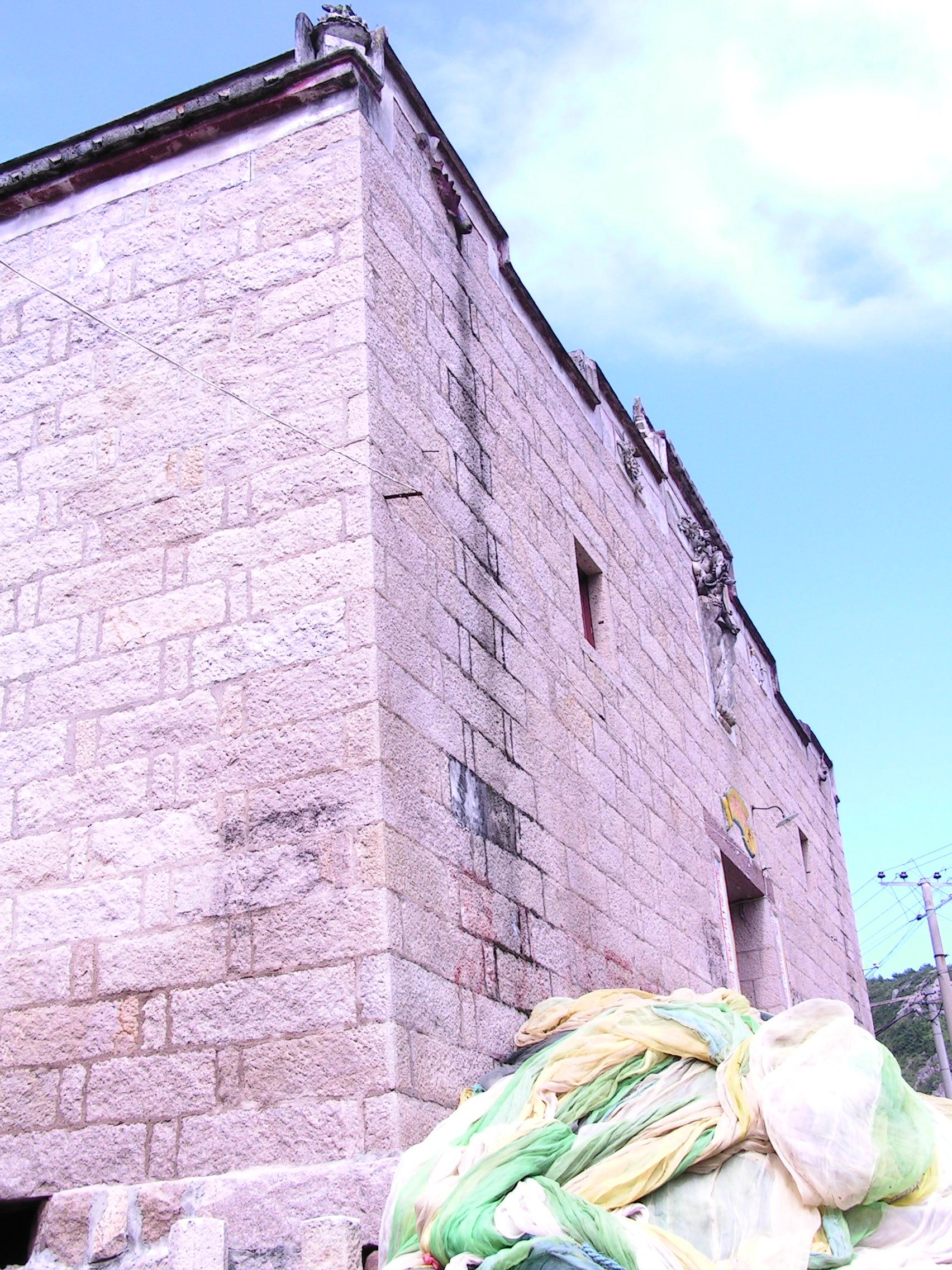 A stone Linshui Temple (臨水宮) in a fishing village called Jibi (Gék-biáh) on the coast of Luoyuan County, Fuzhou, Fujian Province of China. Linshui Temples are dedicated to Chen Jinggu (陳靖姑), a Fuzhou native Taoist goddess of parturition, women and children.